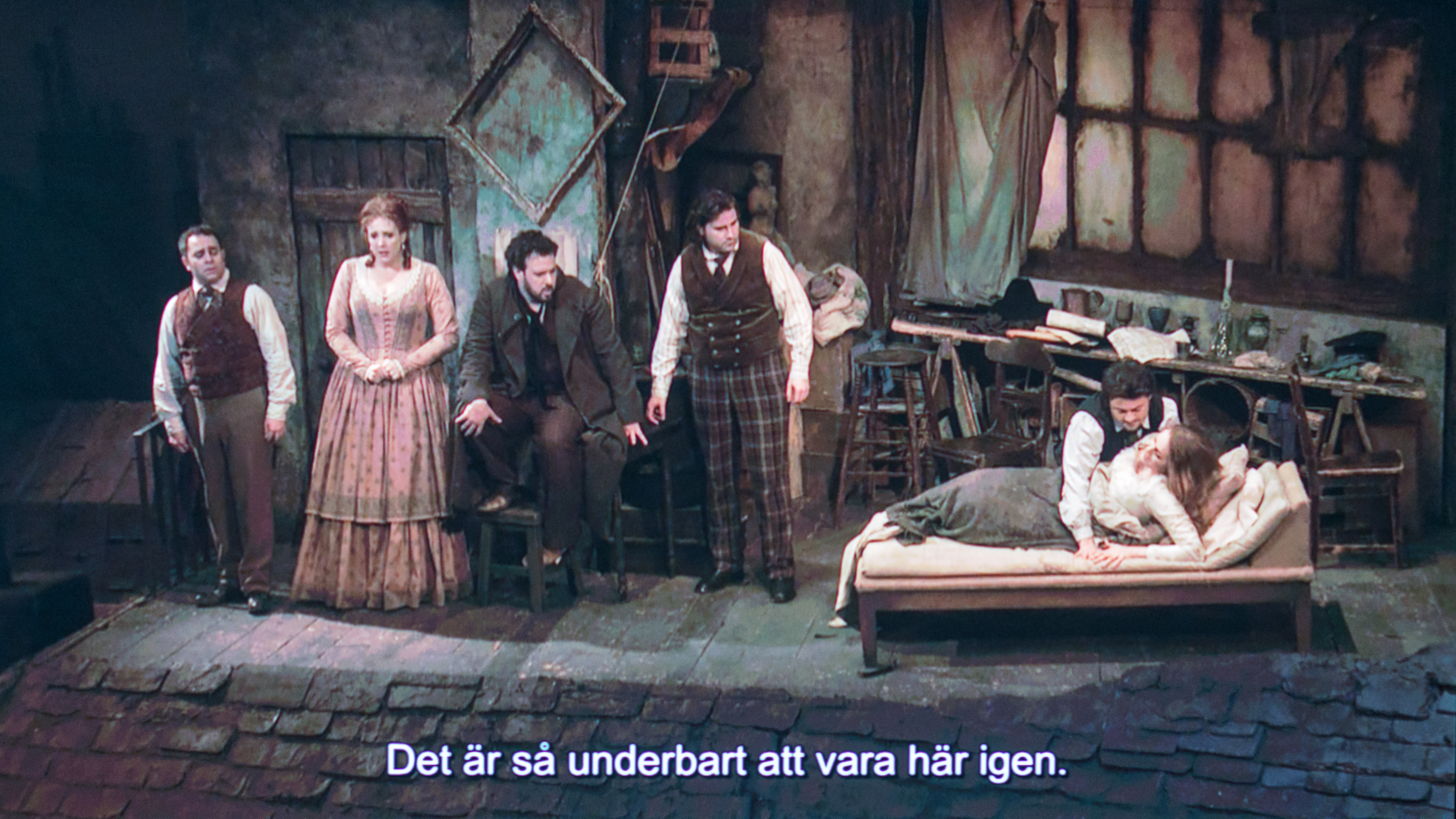 La Bohème from the Metropolitan Opera April 2014